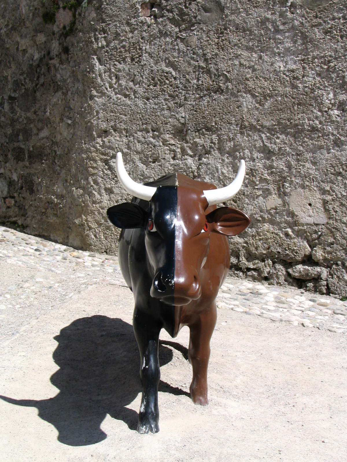 Own photo.